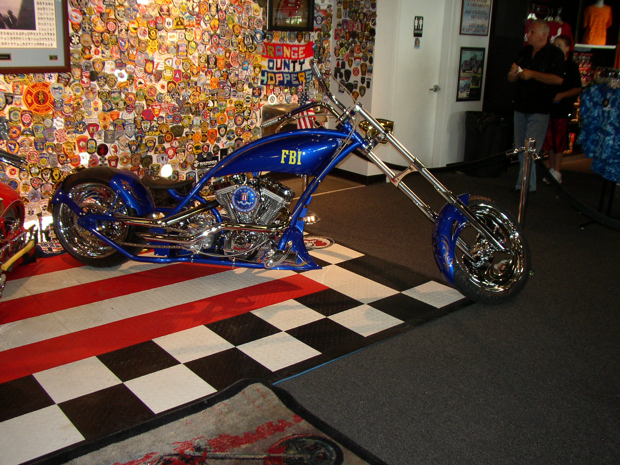 OCC FBI-Bike im OCC-Shop